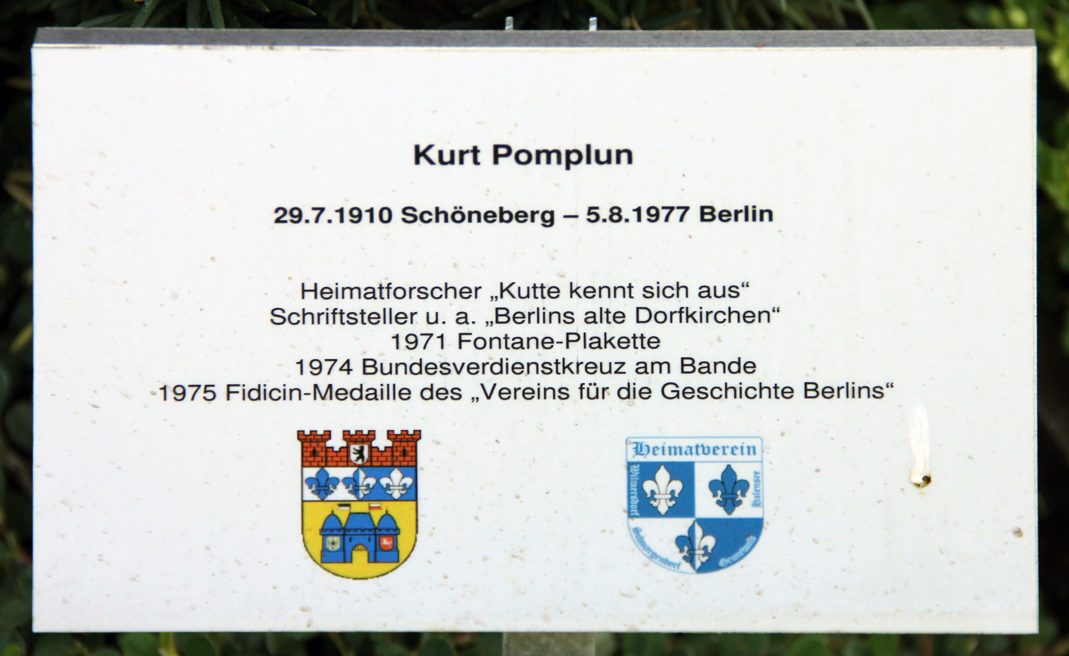 Memorial plaque, Kurt Pomplun, Berliner Straße 81, Berlin-Wilmersdorf, Deutschland